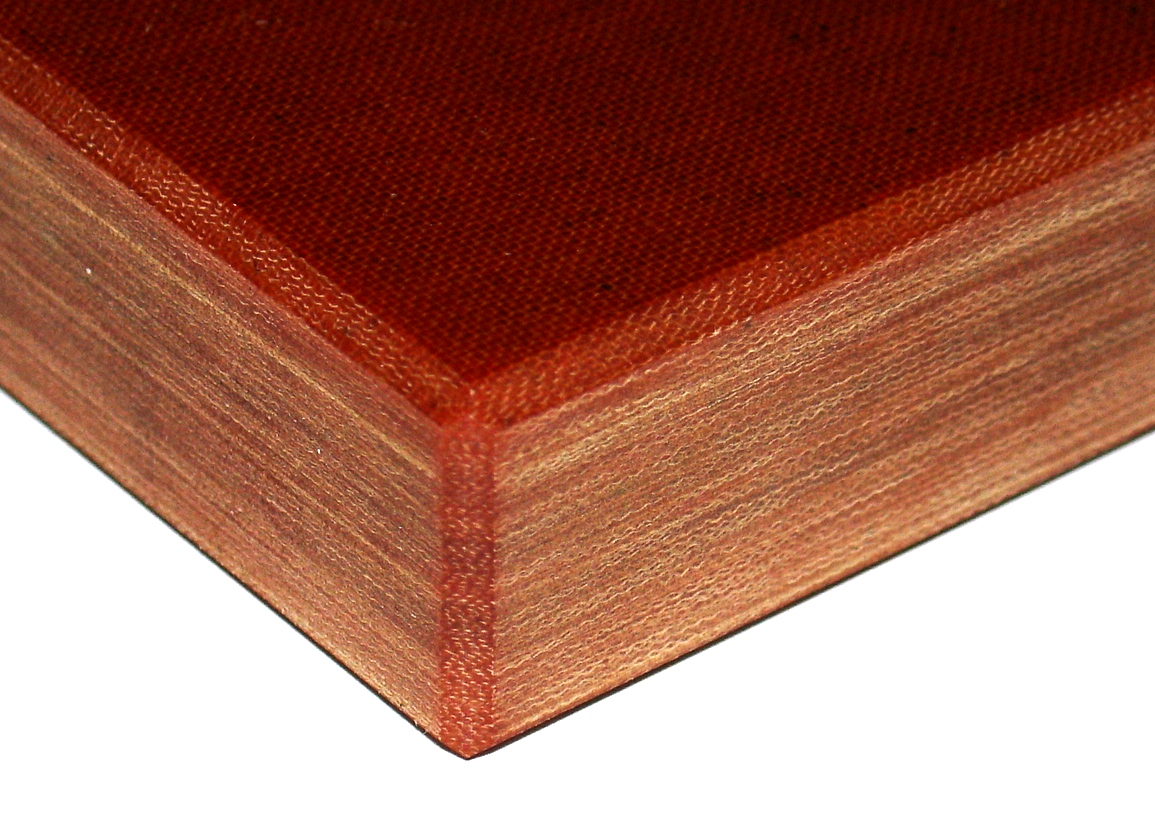 Textolite or Tufnol, 20 mm thick plate